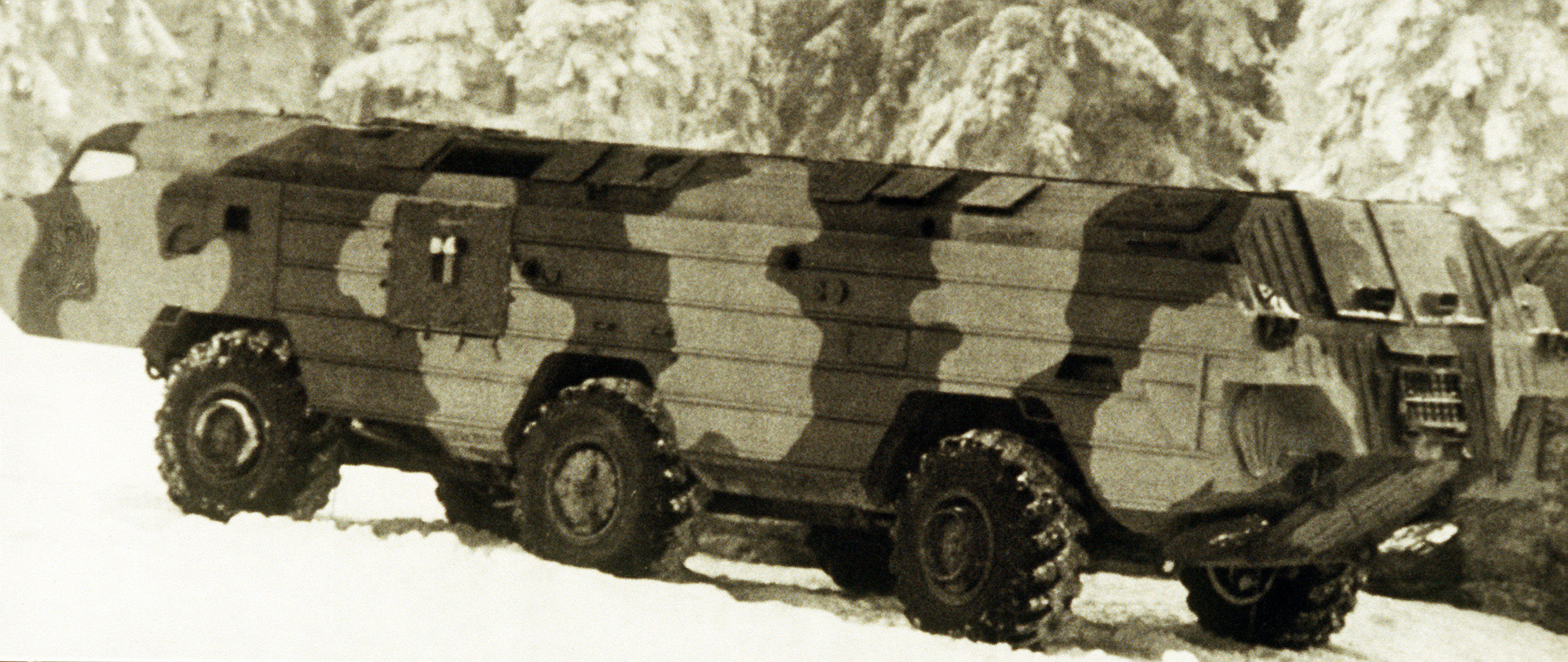 Side view of a Soviet SS-21 Transporter-Erector-Launcher.